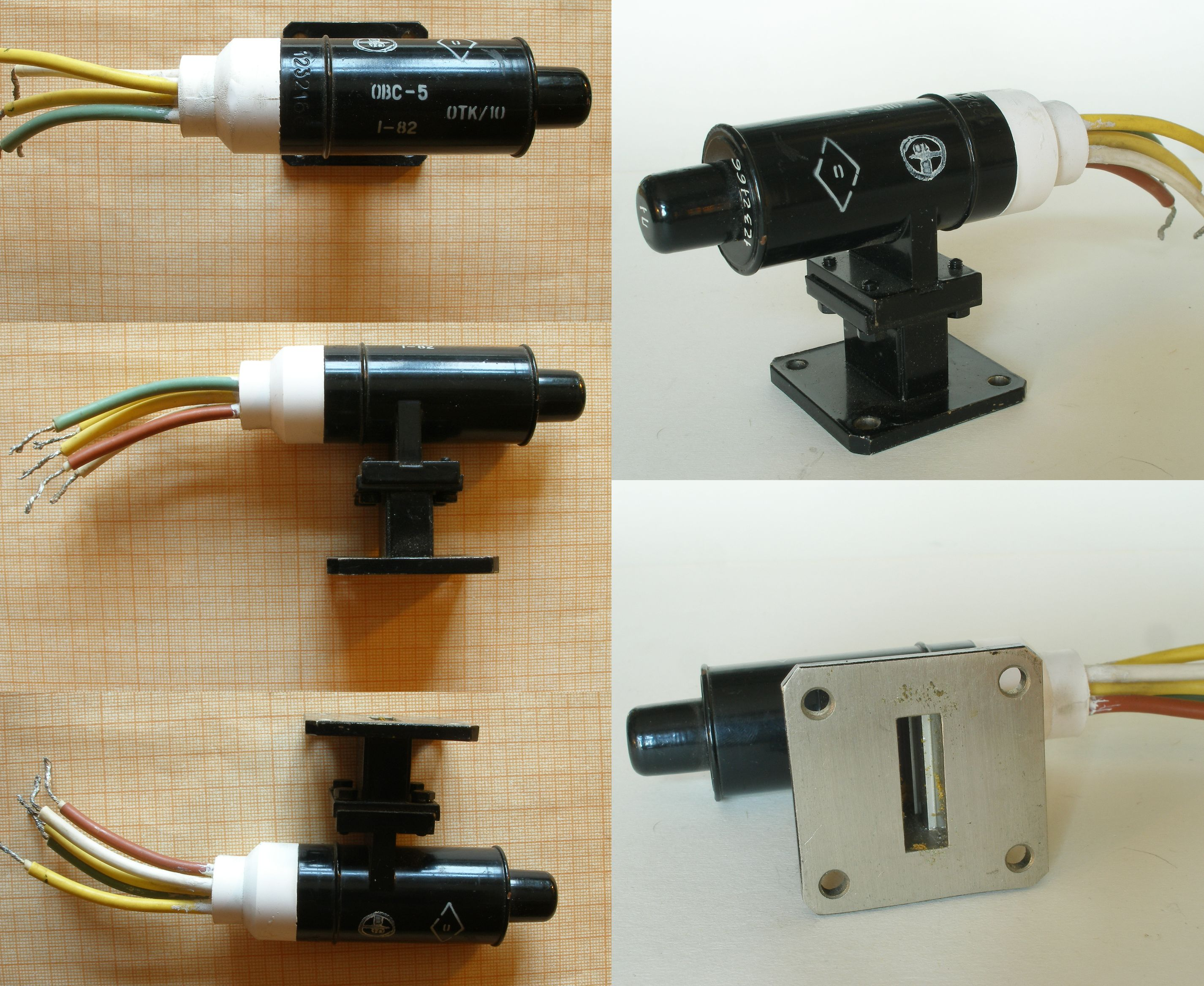 Backward wave oscillator OVS-5 (ОВС-5 in russian), which generates microwaves. The flange on the side of the tube is to attach it to a waveguide which conducts the microwaves. Manufactured in Soviet Union, 1982.